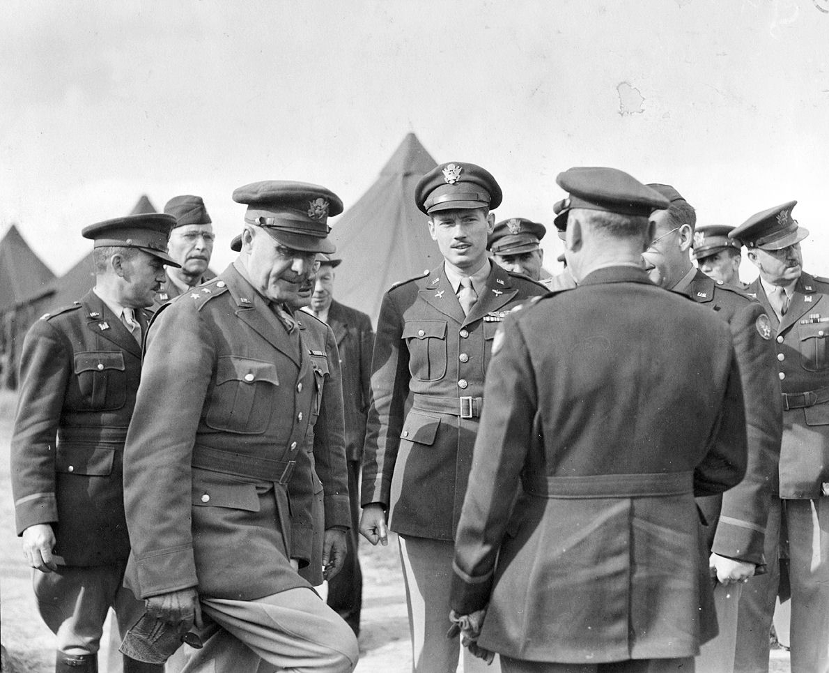 General Ira C Eaker and General Lee with Lieutenant-Colonel Elliot Vandevanter Jr, commanding officer of the 385th Bomb Group, during an official visit. Passed for publication 28 Sep 1943. Printed caption on reverse: 'Youth Of The Flying Fortresses. USP/224I-84. The Big Chiefs visit the Fortress Unit of Youth. General Lee with Lt.Col. Elliot Vandevanter Jr., 26-year-old commanding Officer of the Station, and General Eaker (with back to camera) Commander of the Eighth Air Force during a tour of inspection.' Censor no: 285774. On reverse: Keystone Press, US Army Press Censor ETO and US Army General Section Press & Censorship Bureau [Stamps].